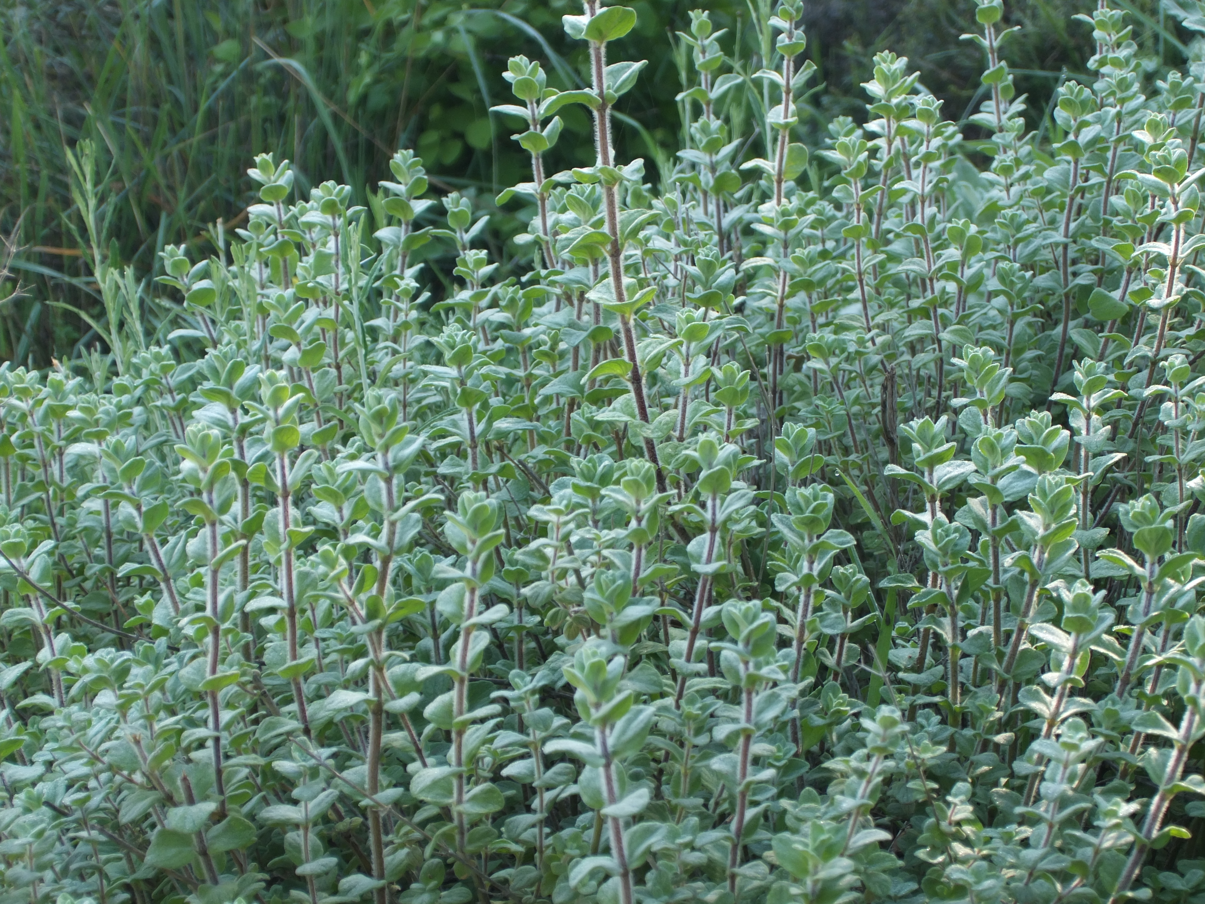 Spring's growth of Origanum syriacum, a highly valued food spice